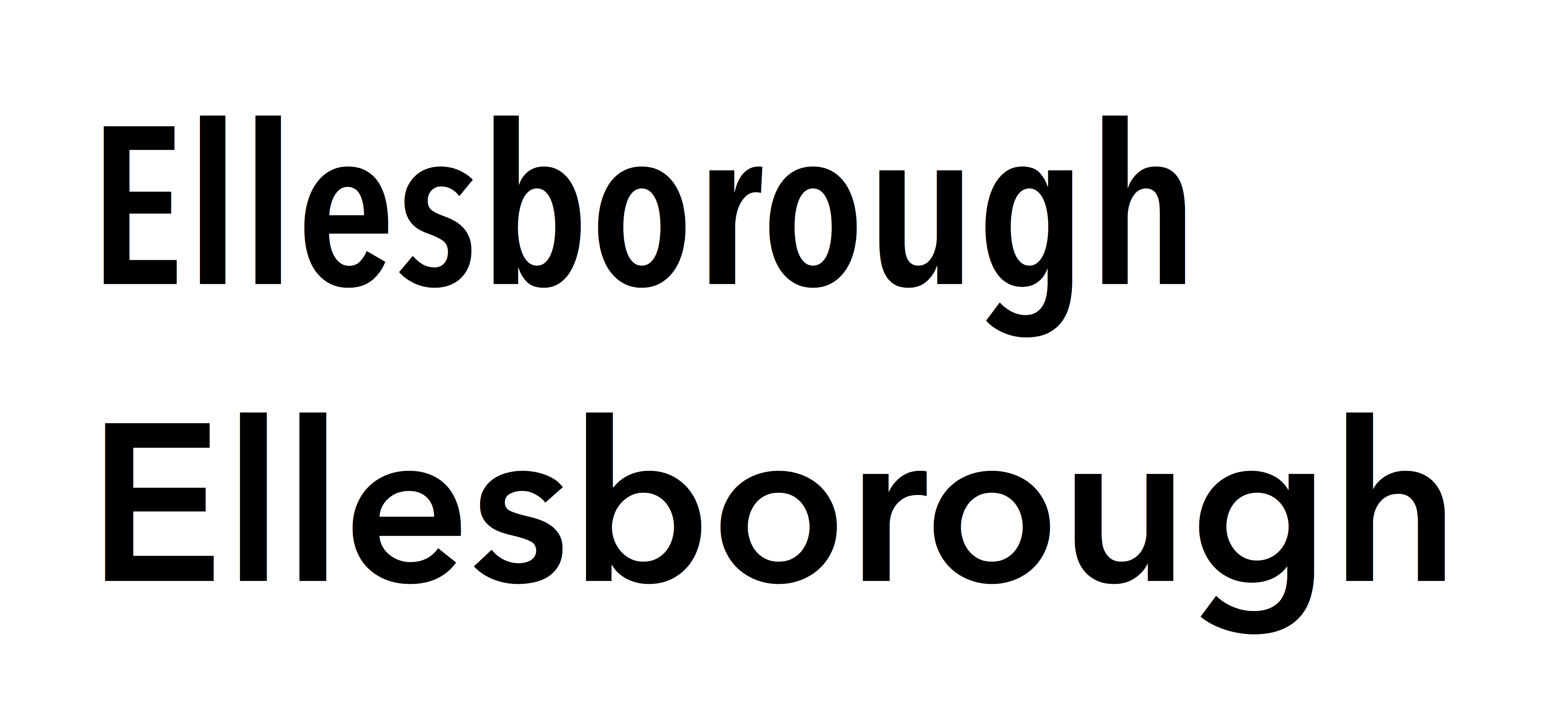 The typeface Avenir Next in regular and condensed widths. Both are seen in the Demi-Bold style